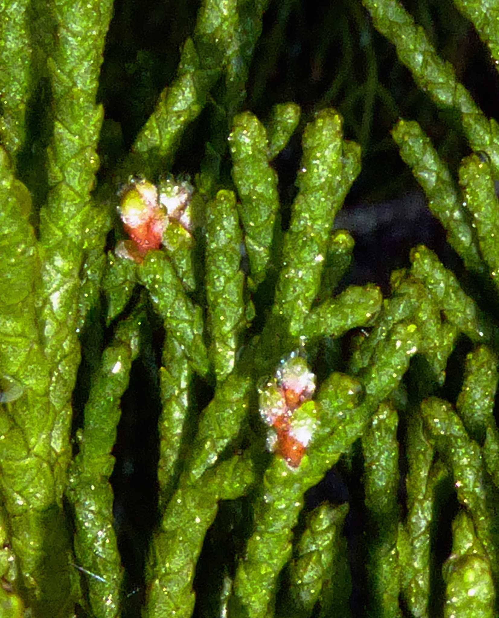 manoao (Manoao colensoi. Male tree. )